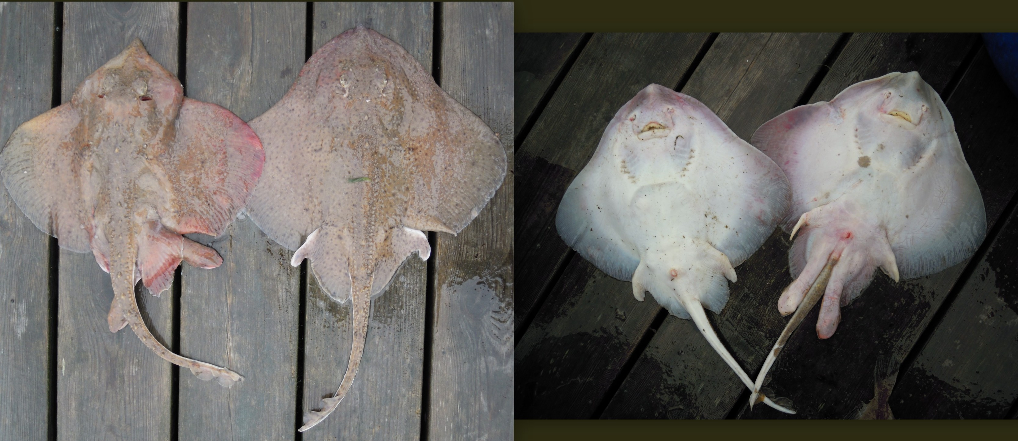 Thorny skate, Starry skate - Amblyraja radiata, Stavern, Norway. You are free to use this picture outside Wikipedia (see license), as long as you write: Photo: Arnstein Rønning